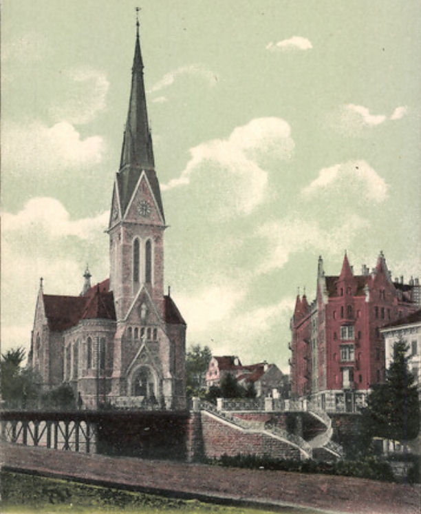 The protestant St.Leonhardskirche in St. Gallen ca. 1900, designed by the Berlin architect Johannes Vollmer